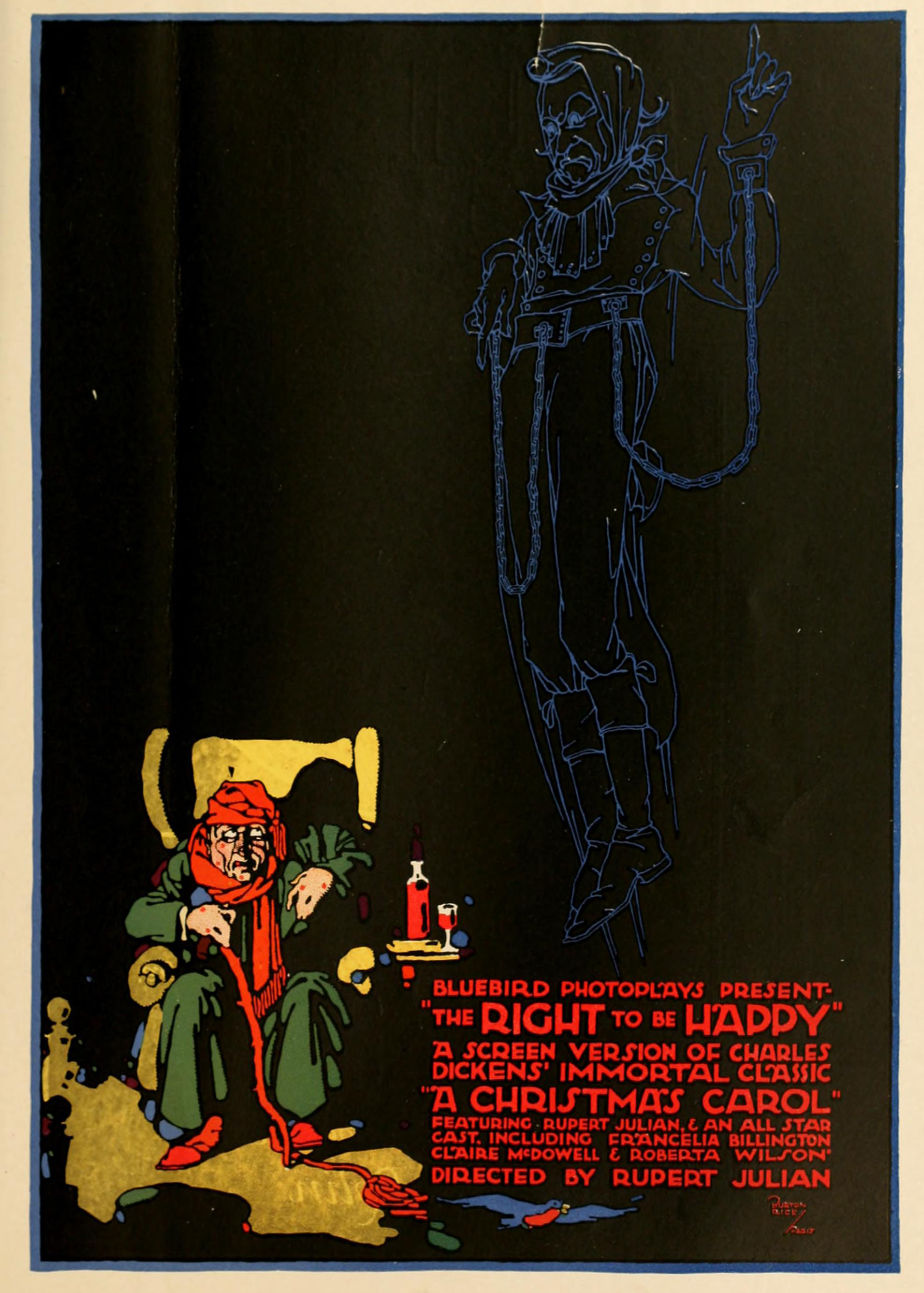 Advertisement in The Moving Picture World